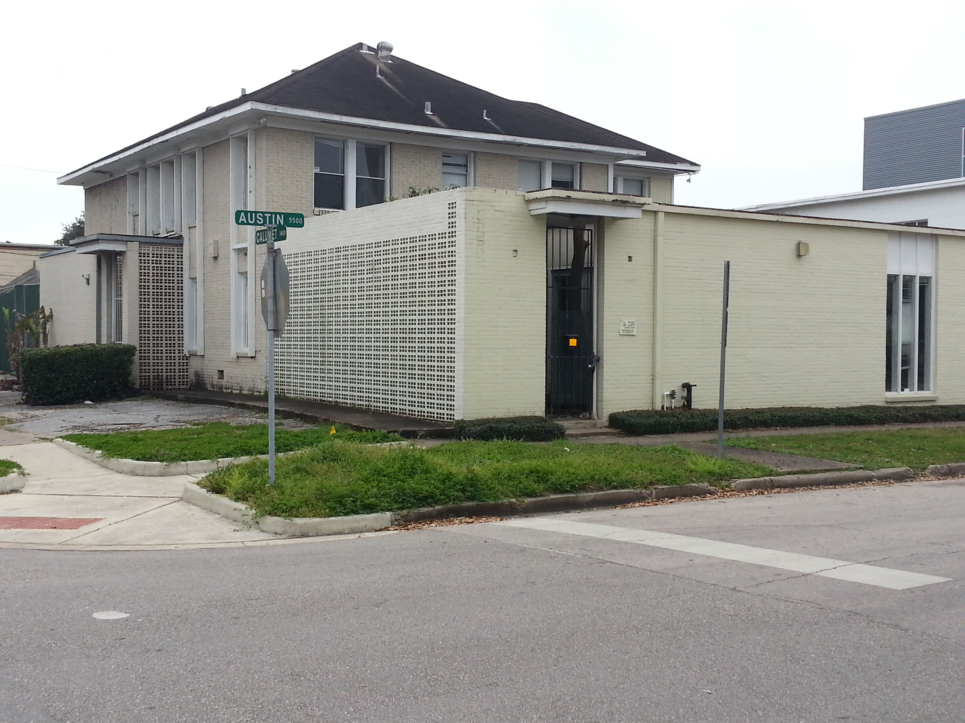 Bo's Place original location on Austin Street, Houston Texas